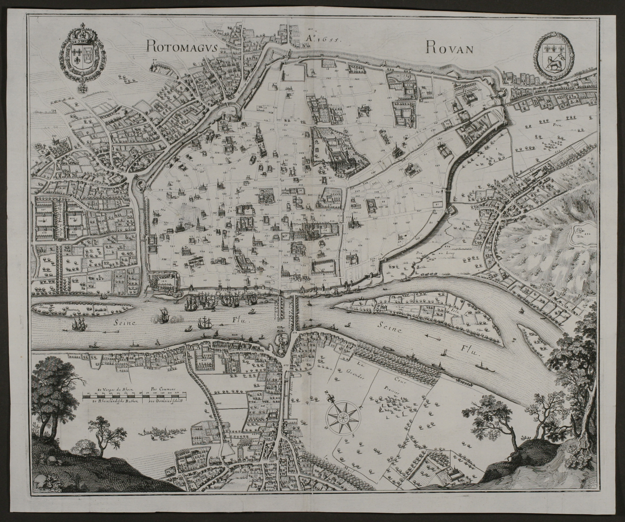 Engraved birdeye view of Rouen at the River Seine (France)